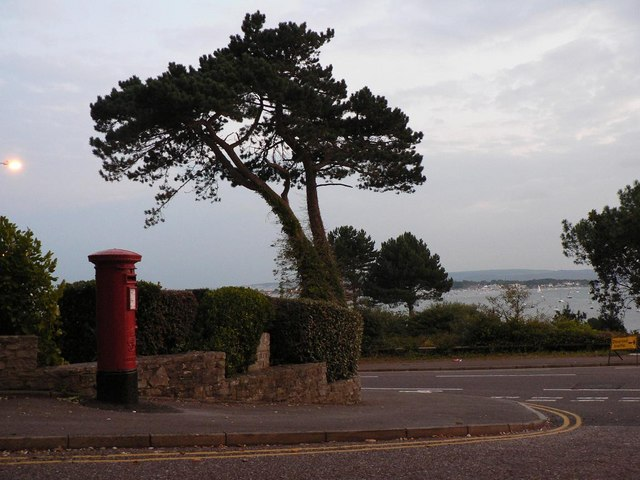 Lilliput: postbox № BH14 15, Crichel Mount Road This George VI-reign postbox would have fine views over Poole Harbour, if only it could turn round a bit!